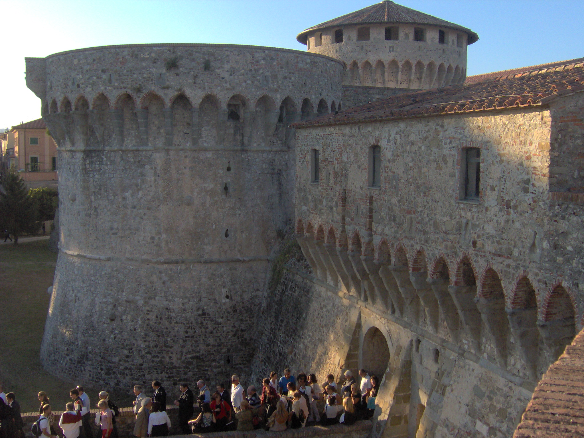 Citadella in the historic part of the town of Sarzana, Liguria, Italy